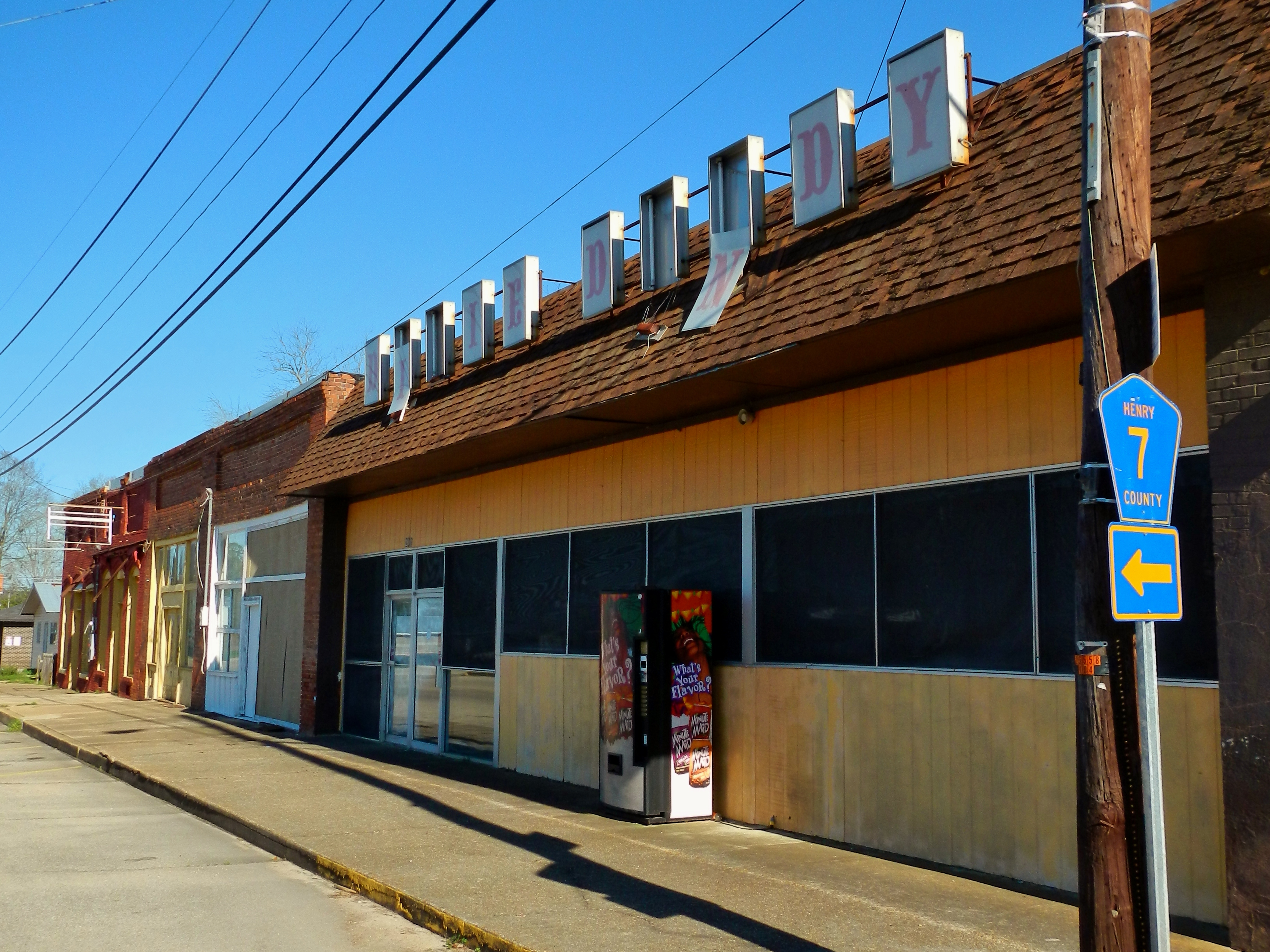 This is a photograph of Newville in Henry County, Alabama.